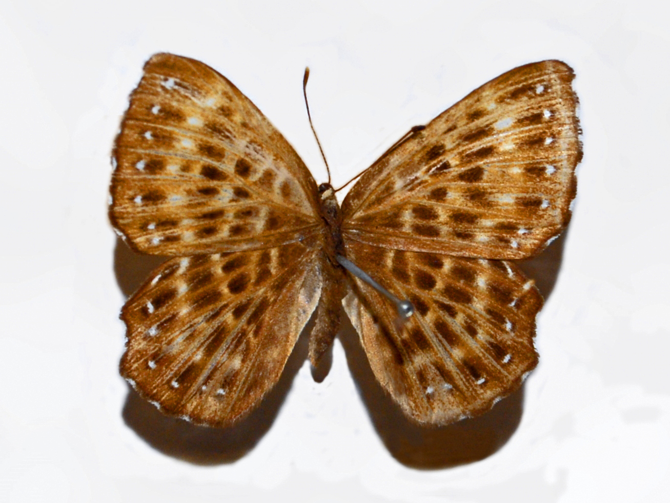 Mounted specimen of Zemeros flegyas sparsus from Nias island on display at the Civico Museo di Storia Naturale di Trieste